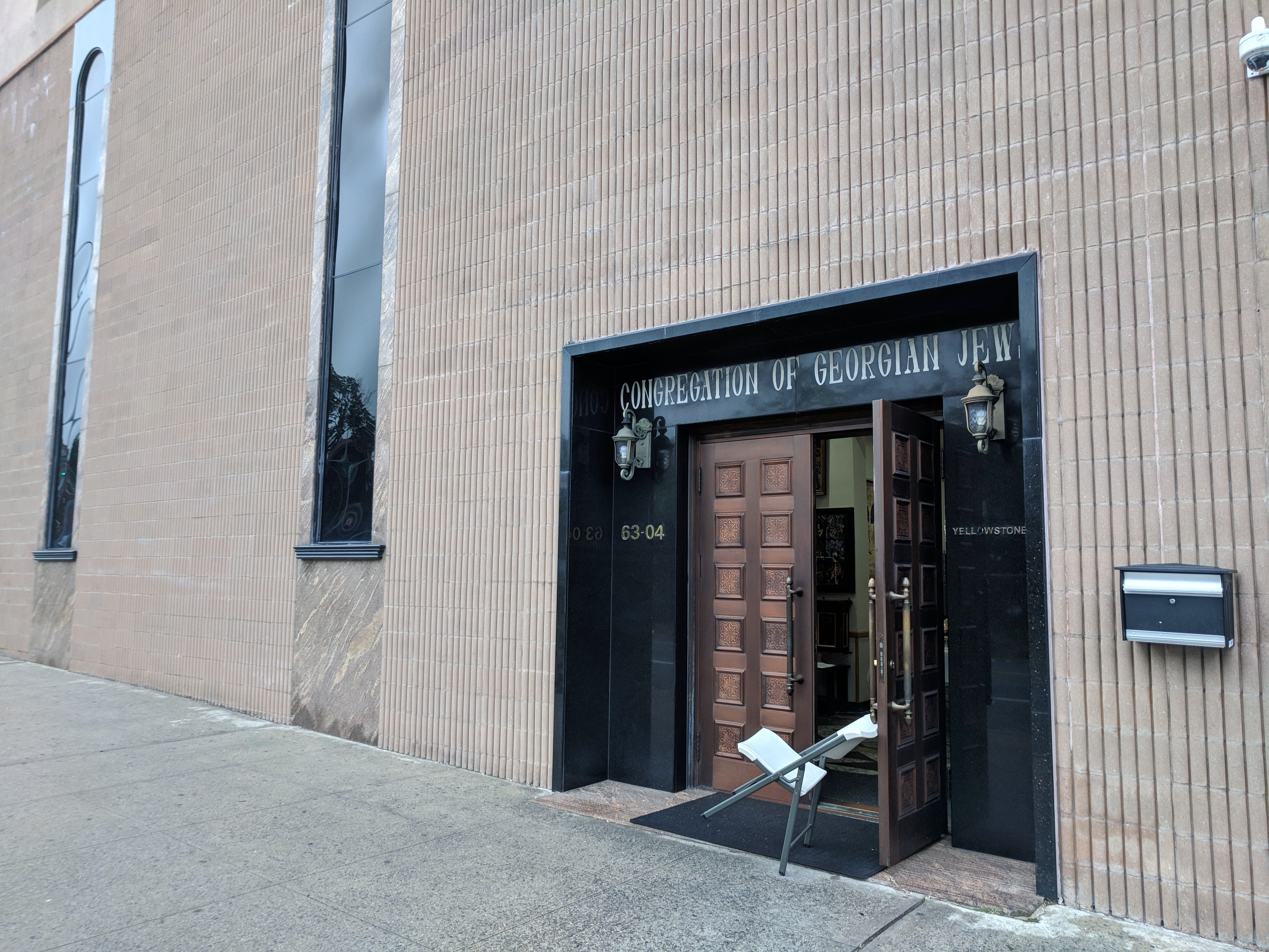 Congregation of Georgian Jews, a Georgian-Jewish Orthodox synagogue in Forest Hills, Queens, New York City. This Georgian shul in Queens is the only Georgian shul in the United States. Other Georgian shuls exist in Georgia, Israel and Belgium.